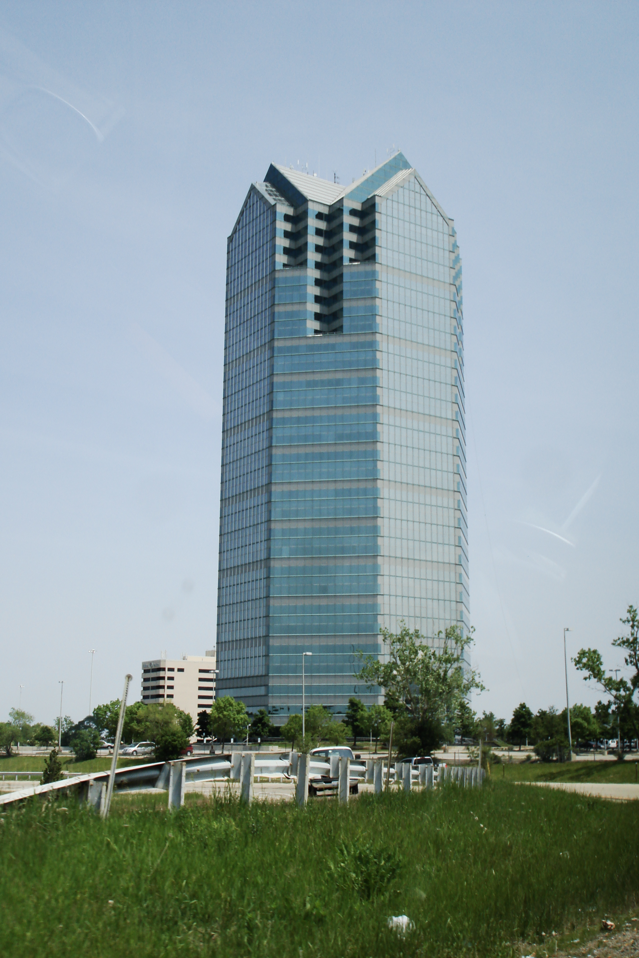 Oakbrook Terrace Tower, located at 1 Tower Lane, Oakbrook Terrace, Illinois.